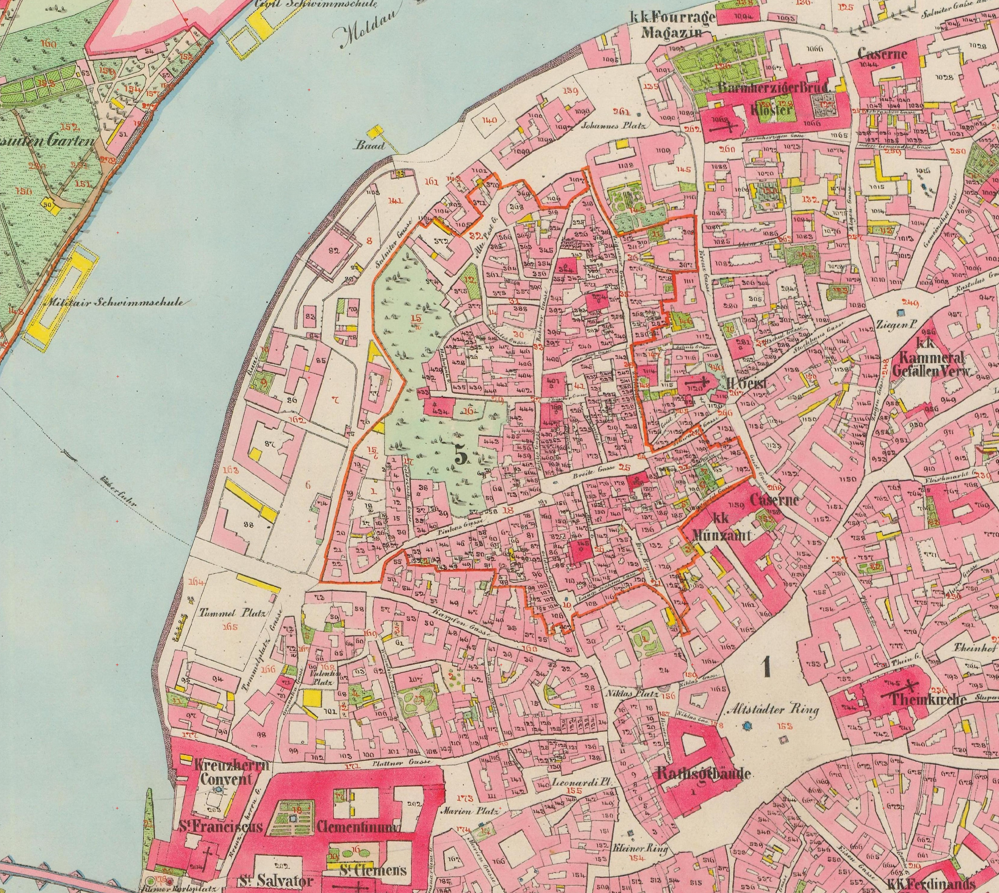 Old cadastral map of original Praha-Josefov cadastral area and surround areas